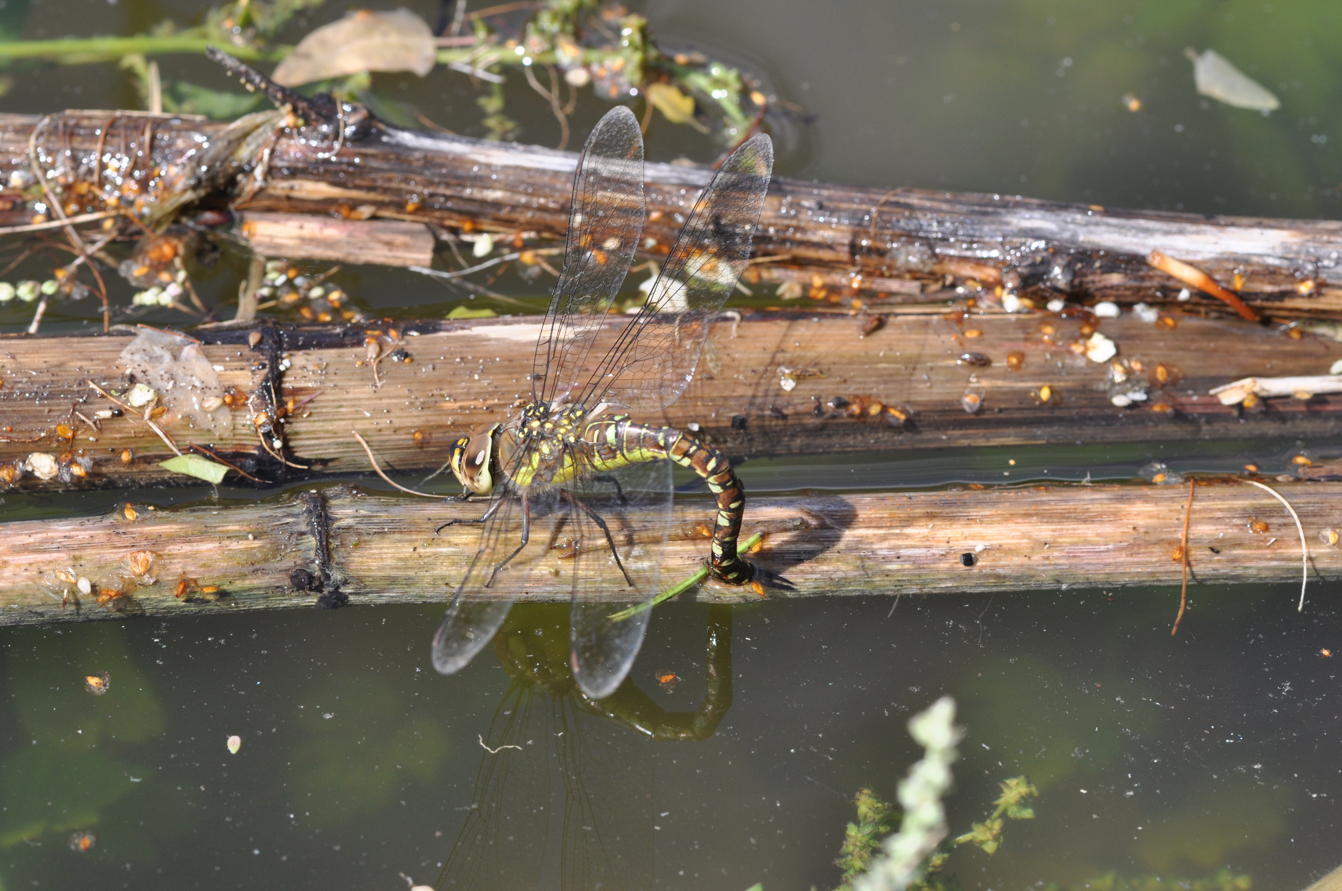 Migrant Hawker female oviposition on old stalks of Japanese knotweed in Bahrenfeld, Hamburg